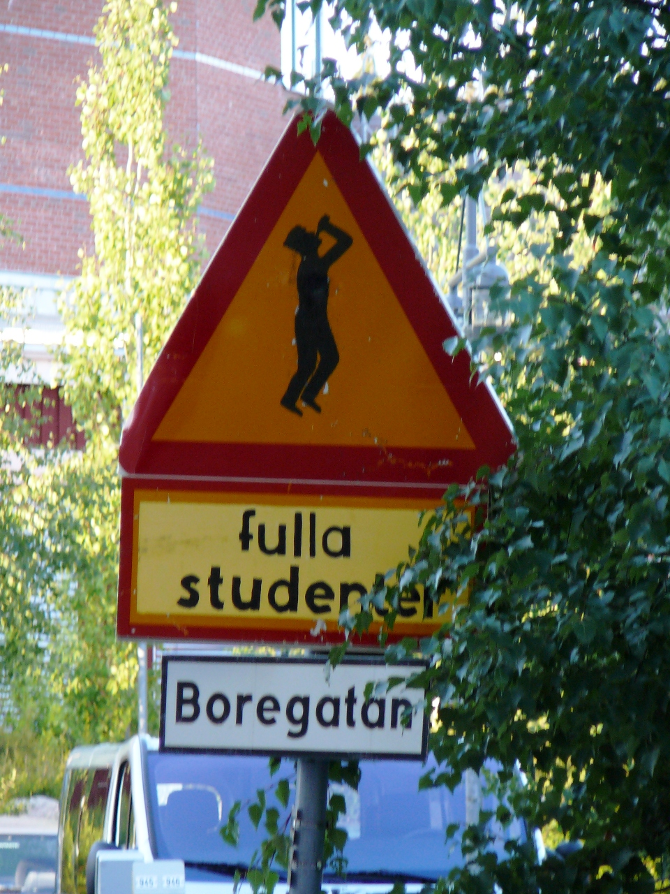 "Traffic sign" created by students of the Luleå University of Technology, Sweden.